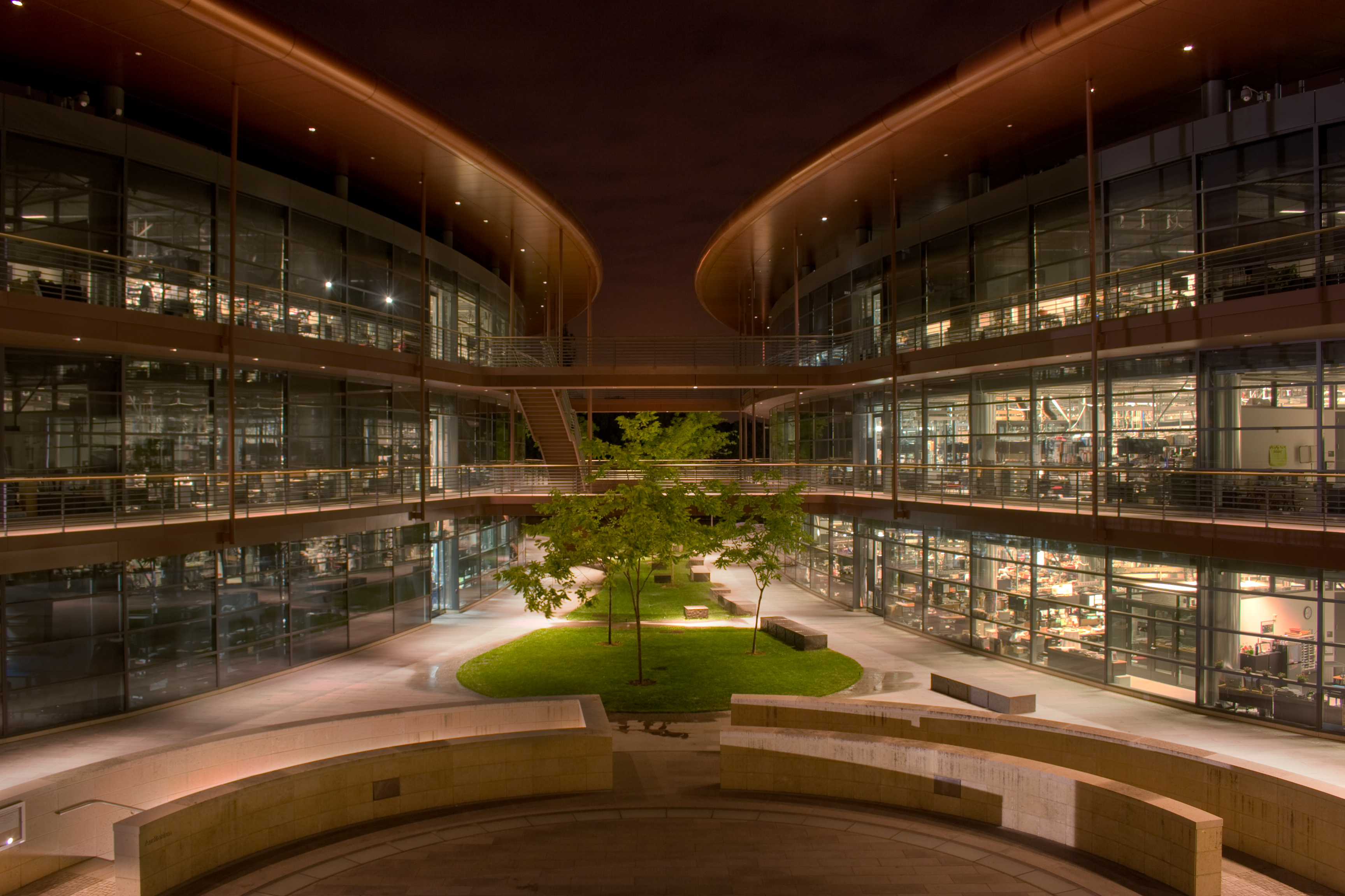 Stanford's James H. Clark Center at night. HDR combination of three exposures, 2.5s, 8s, and 25s, all at f/7.1 and ISO 100. Taken on a Canon Rebel XT with an EF-S 18-55mm lens at 18mm.